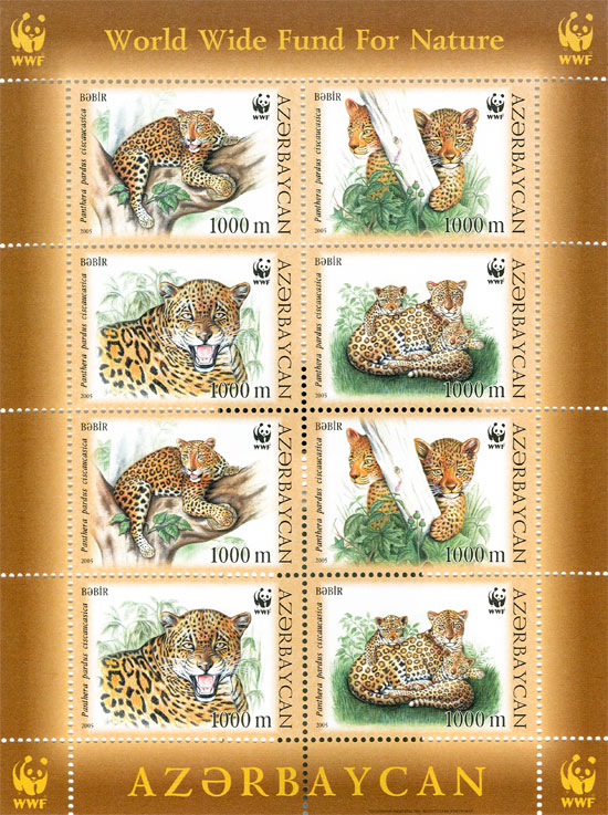 Stamp of Azerbaijan